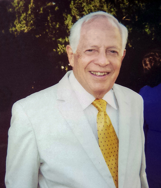 Photo of William Conrad Gibbons at his home in Monroe, Virginia during his daughter Gayle Gibbons Madeira's wedding in 2002.